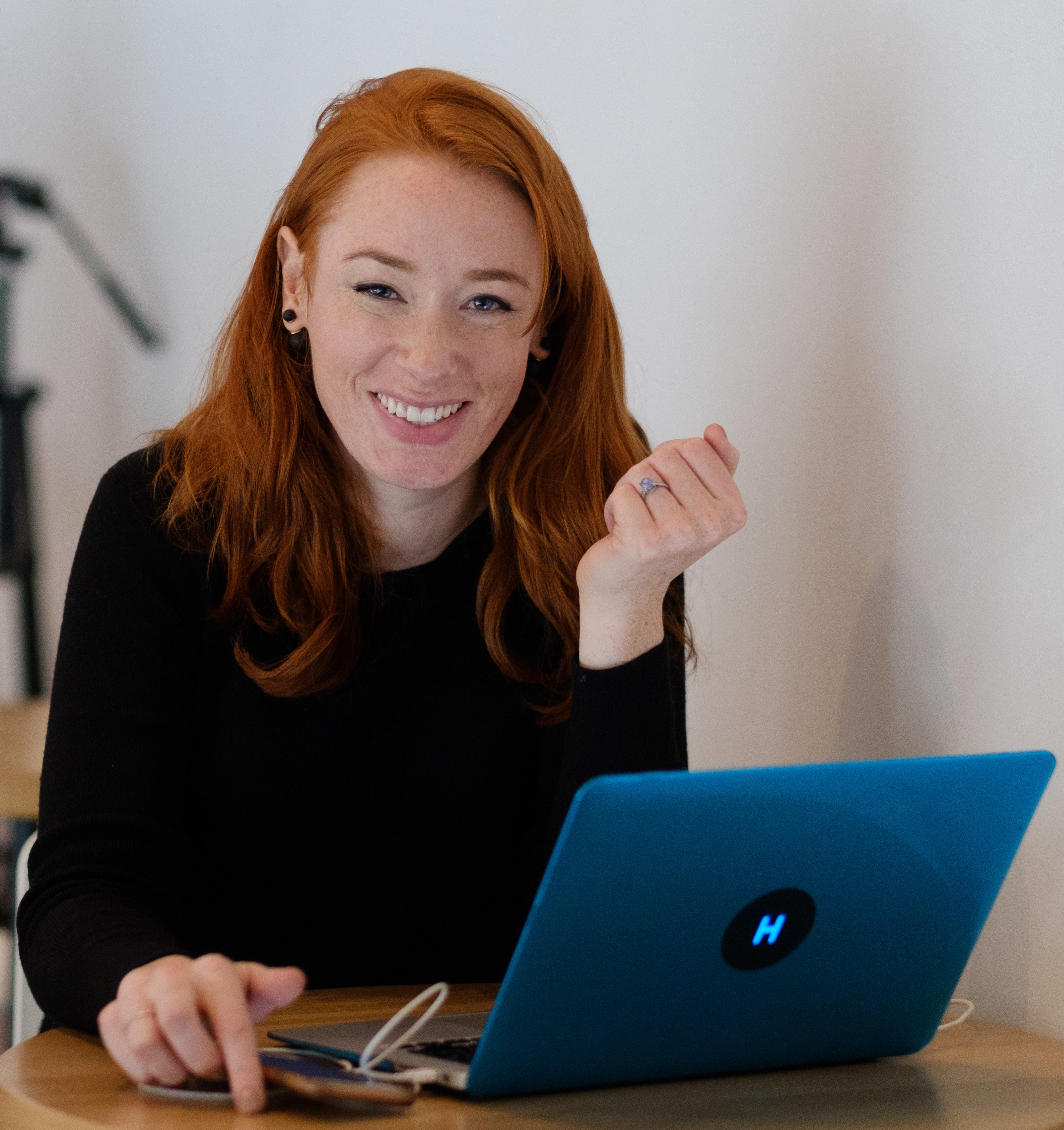 The European Data of Tomorrow Conference was both an educating and inspiring event about information, data and all its relevant, innovative and value-adding aspects. Data of Tomorrow gave attendees a glimpse of the future of Master Data Management (MDM), technology and industry trends – and the tools to shape it. The conference took place on September 20 and 21 in the EYE filmmuseum in Amsterdam, The Netherlands.